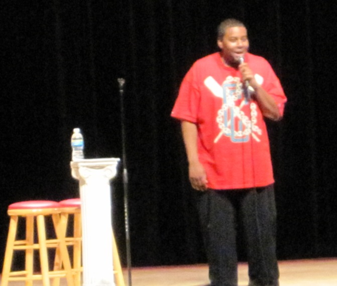 Kenan Thompson performing at the Universtiy of Mary Washington in Fredericksburg, VA